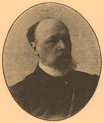 Illustration from Brockhaus and Efron Encyclopedic Dictionary (1890—1907)